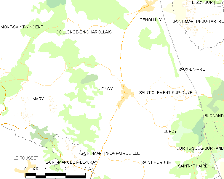 Map of French municipality